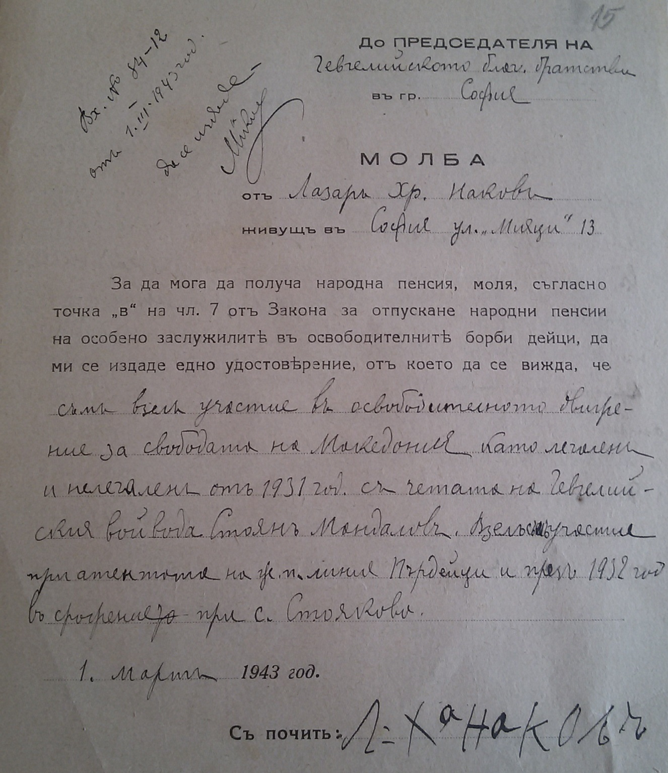 Gevgeli Brotherhood Document 2